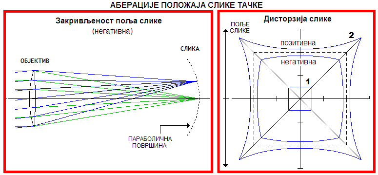 АБЕРАЦИЈЕ ПОЛОЖАЈА ТАЧКЕ